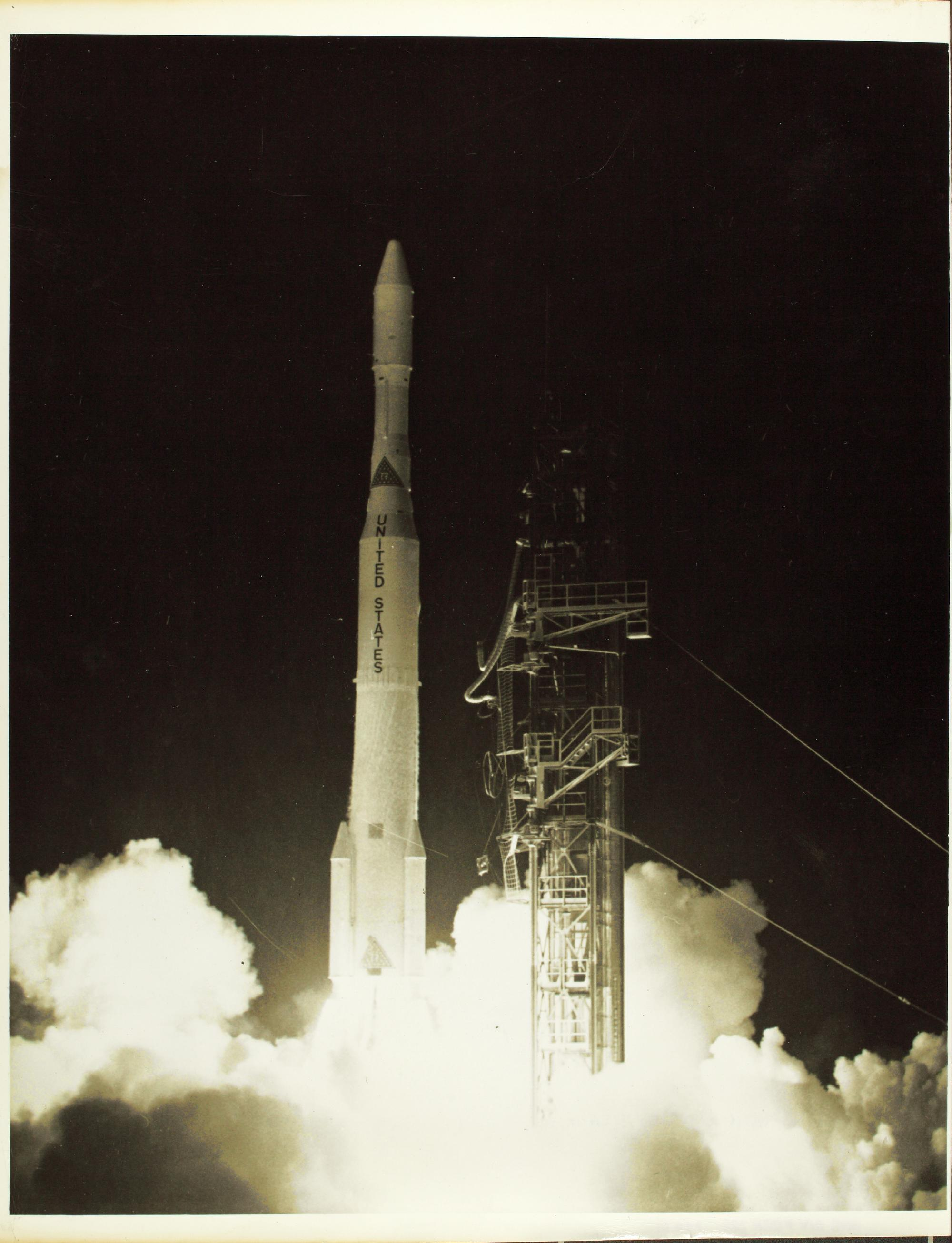 OSO I launch.